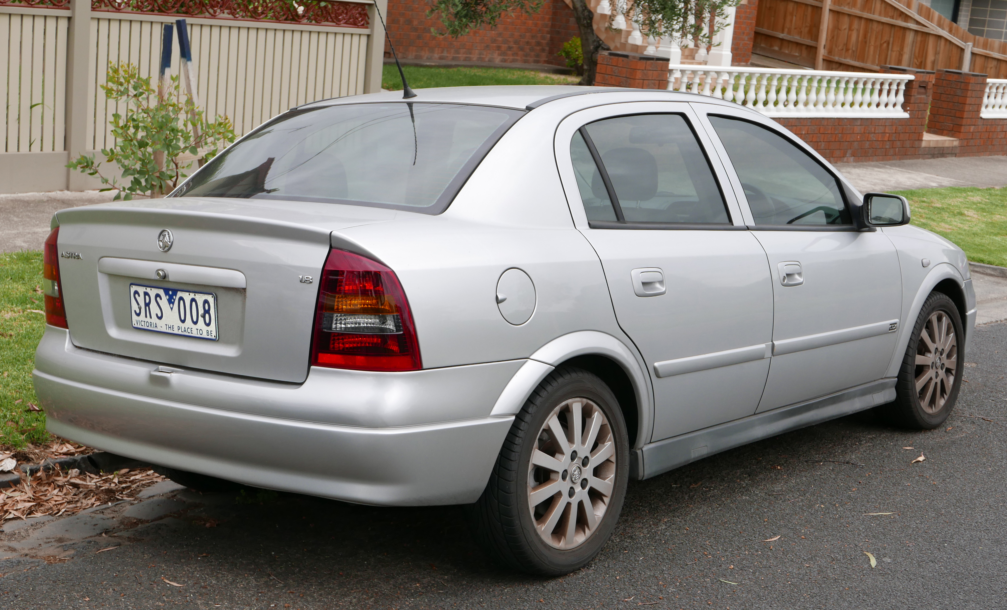 2004 Holden Astra (TS MY03) CDX sedan. Photographed in Coburg, Victoria, Australia. Vehicle registration enquiry results Jurisdiction Victoria Registration SRS008 Chassis code W0L0TGF6945035867 Engine code Z18XE20BZ6315 Compliance date 2004-01 Year of manufacture 2004